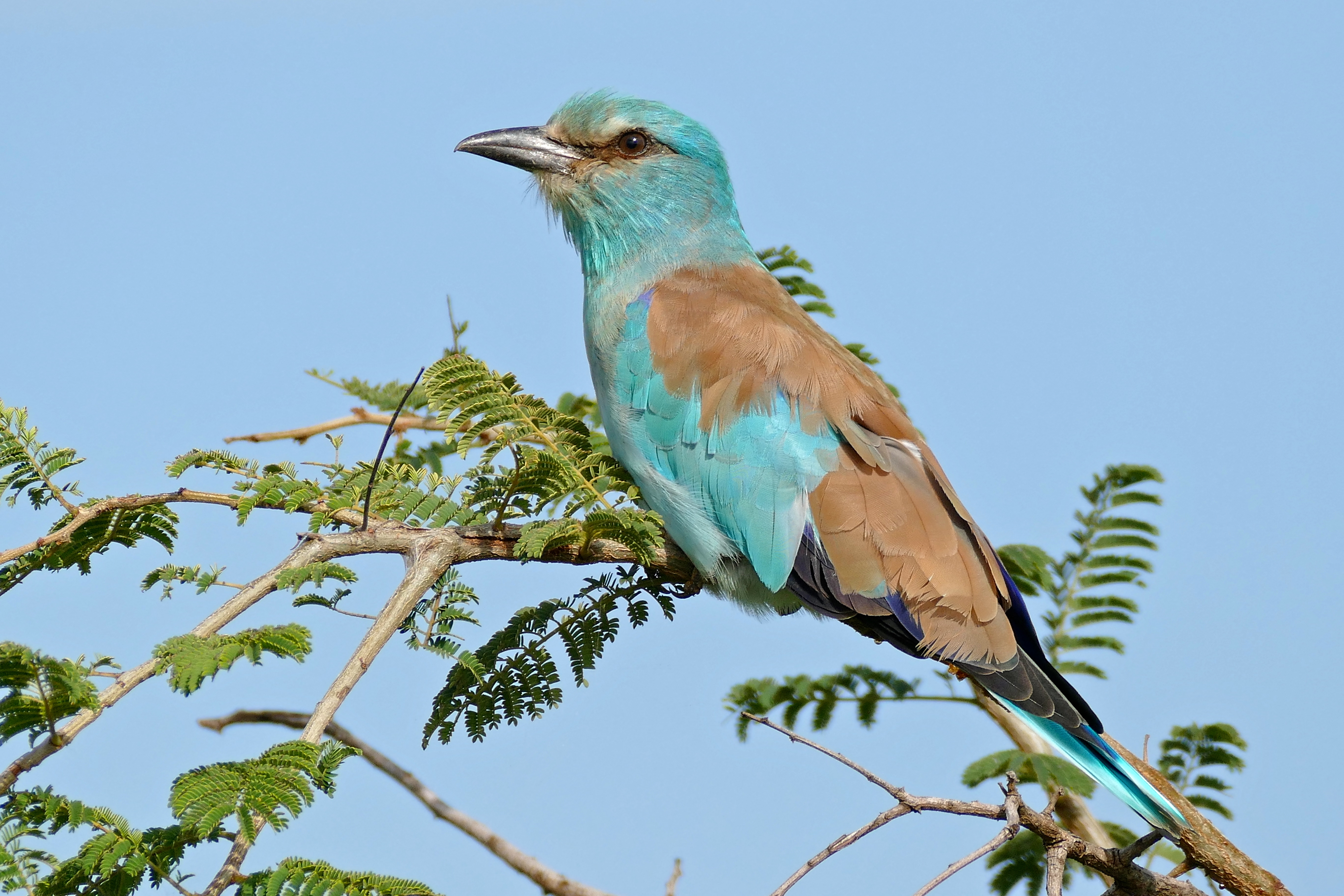 S28 Road North of Crocodile Bridge, Kruger NP, SOUTH AFRICA